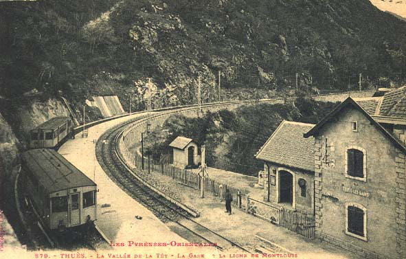 Ancien postcard of the train station of Thuès-Les-Bains